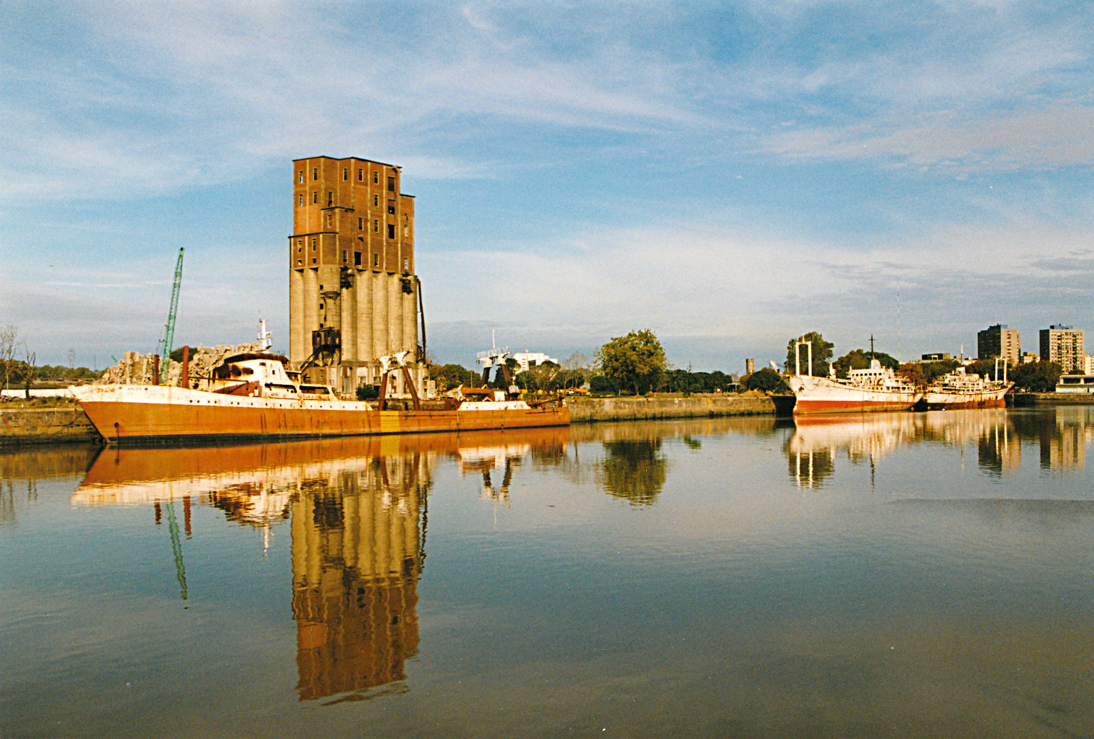 The southernmost of the four docks in Puerto Madero, Buenos Aires, in 1999, showing the abandoned and rotten port just before the area started to be turned to a modern business and amusement area in the first decade of the 21st century.